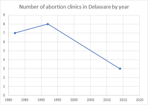 Number of abortion clinics in Delaware by year. Created using data linked on .